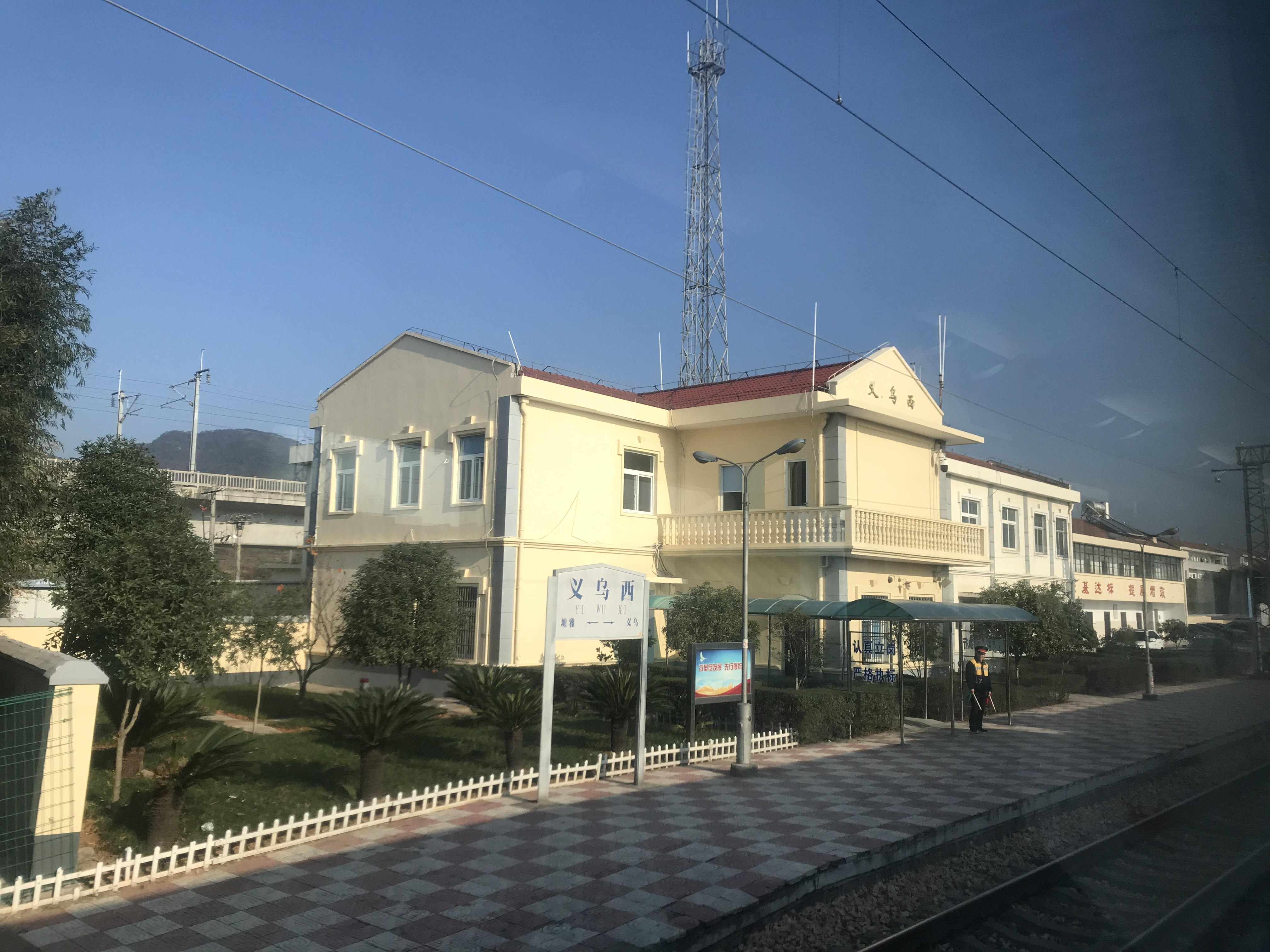 Finally Got it